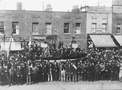 Procession of dock strikers are assembled in the East India Dock Road before setting out for the East End into the City and to Tower Hill, where they listened to speeches by strike leaders.